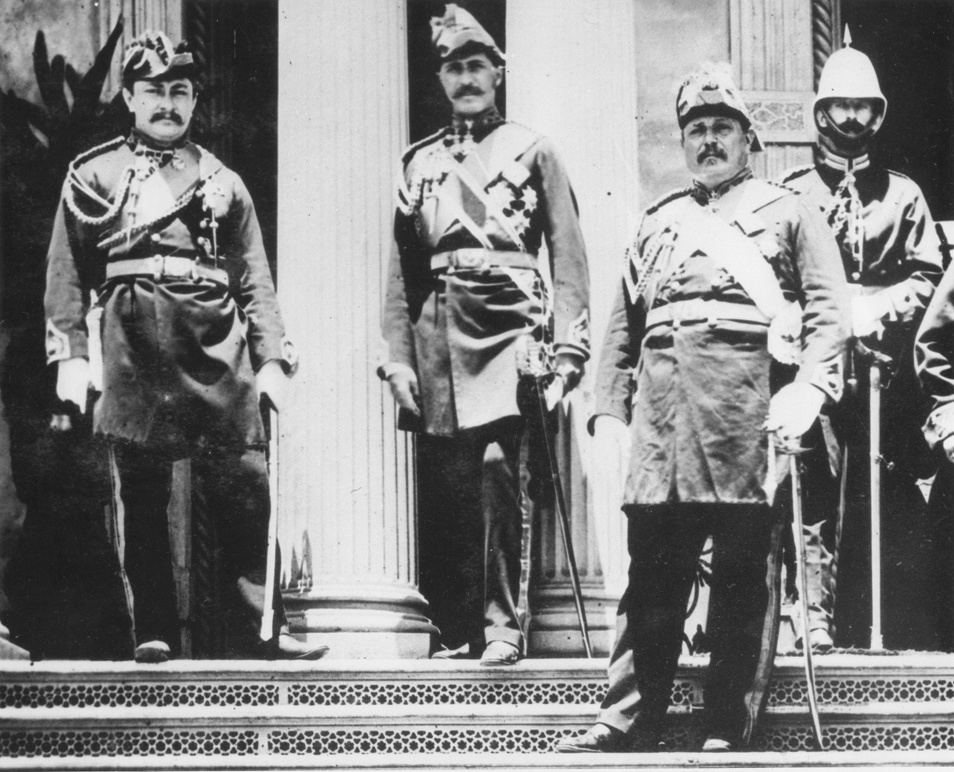 Crop picture of James Harbottle Boyd, Curtis P. Iaukea, Chas. H. Judd, and Edward W. Purvis on the ʻIolani Palace steps.